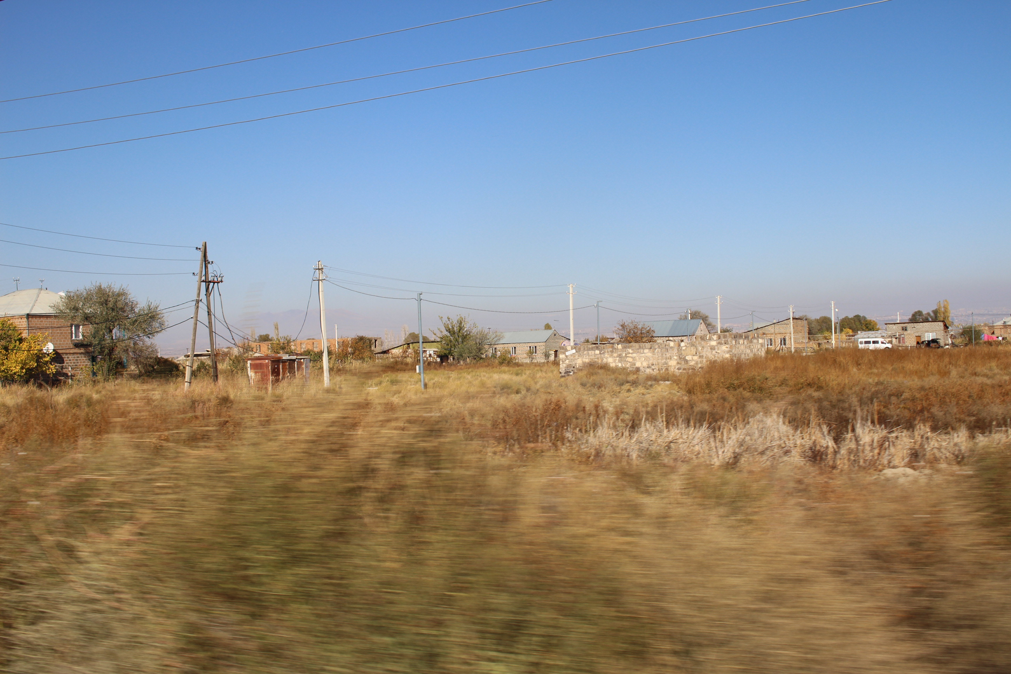 Sipanik community, Ararat, Armenia